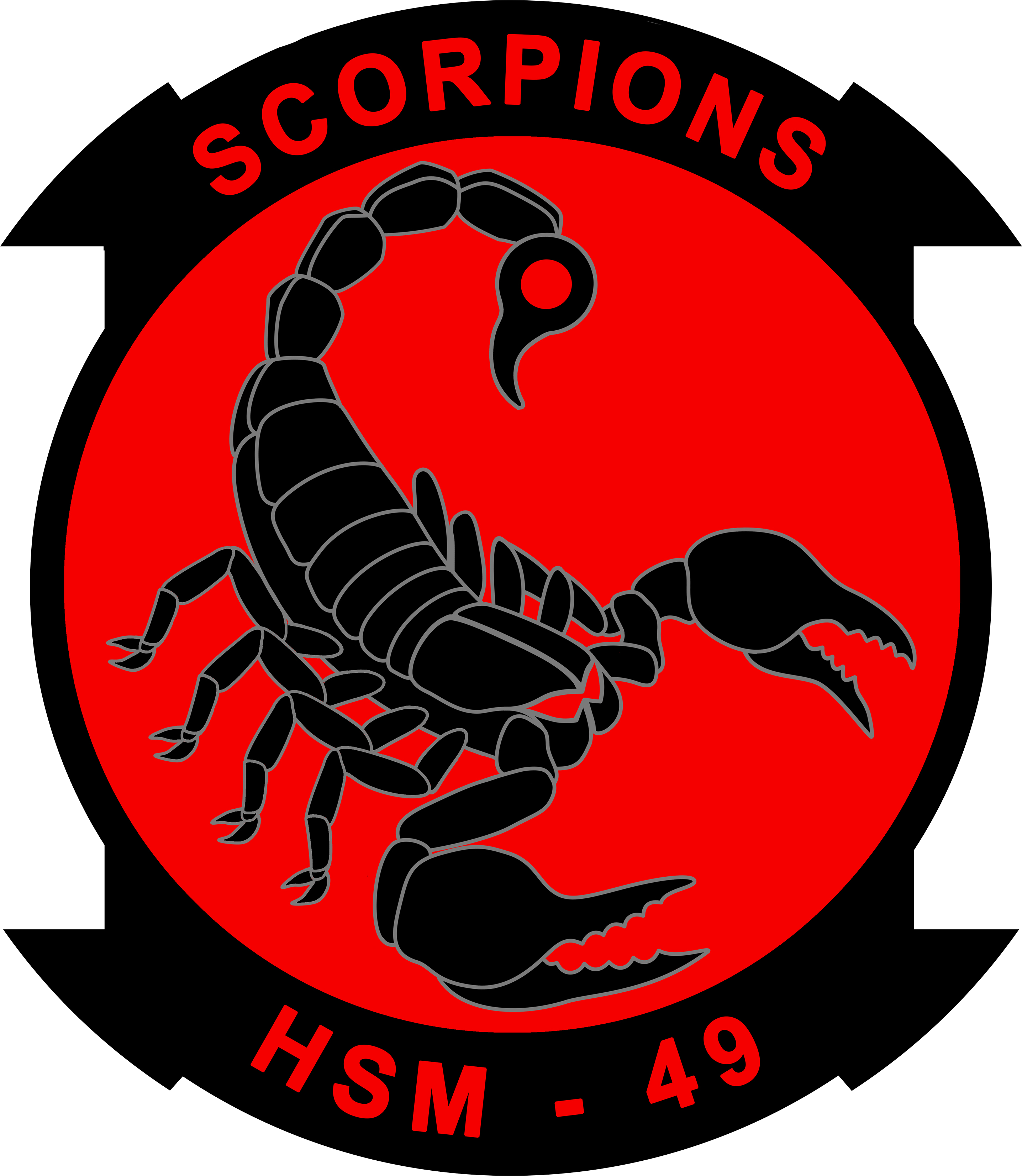 Insignia of the United States Navy Helicopter Maritime Strike Squadron 49 (HSM-49) "Scorpions".